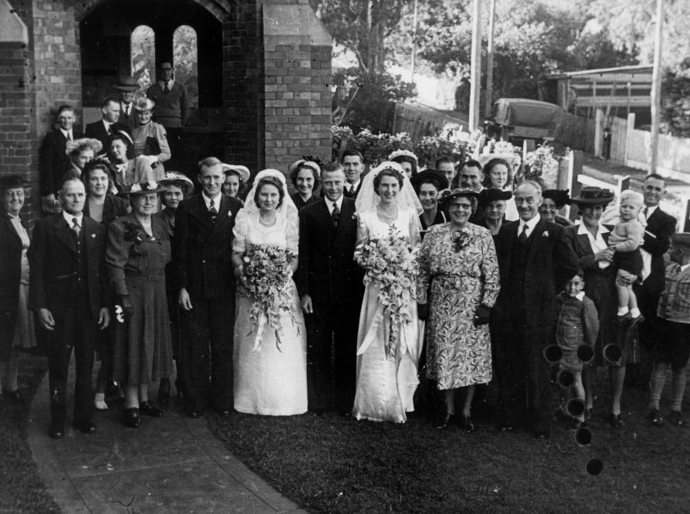 Double wedding in East Brisbane, 1949 A double wedding at St. Paul's Church of England, East Brisbane on 7 May 1949. Irene and Geoff Morse are one of the couples. (Description supplied with photograph.).